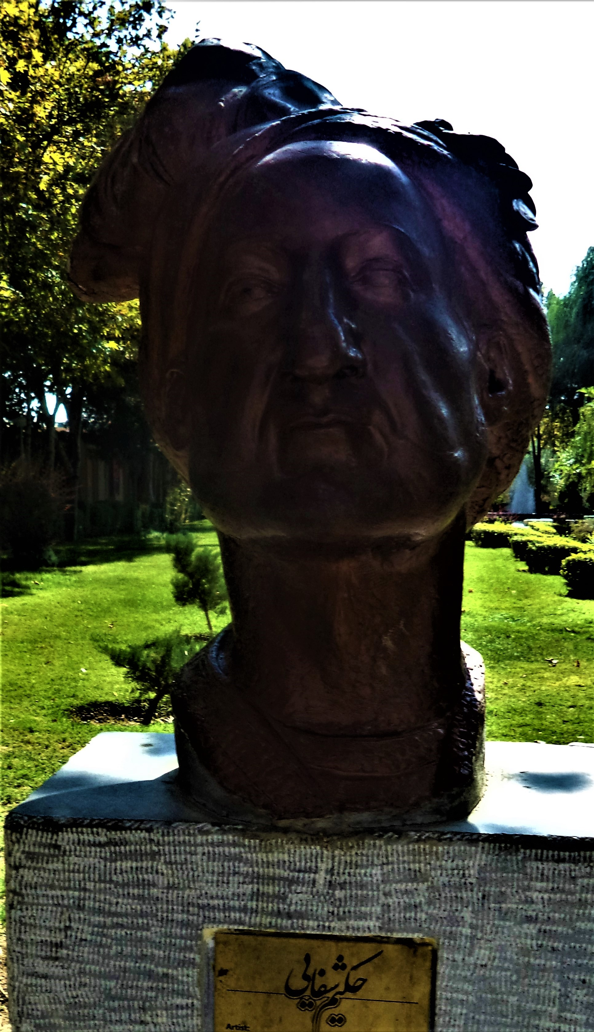 Head Statue of Hakim Shafaei - (1588- ? /996- ? A.H.)